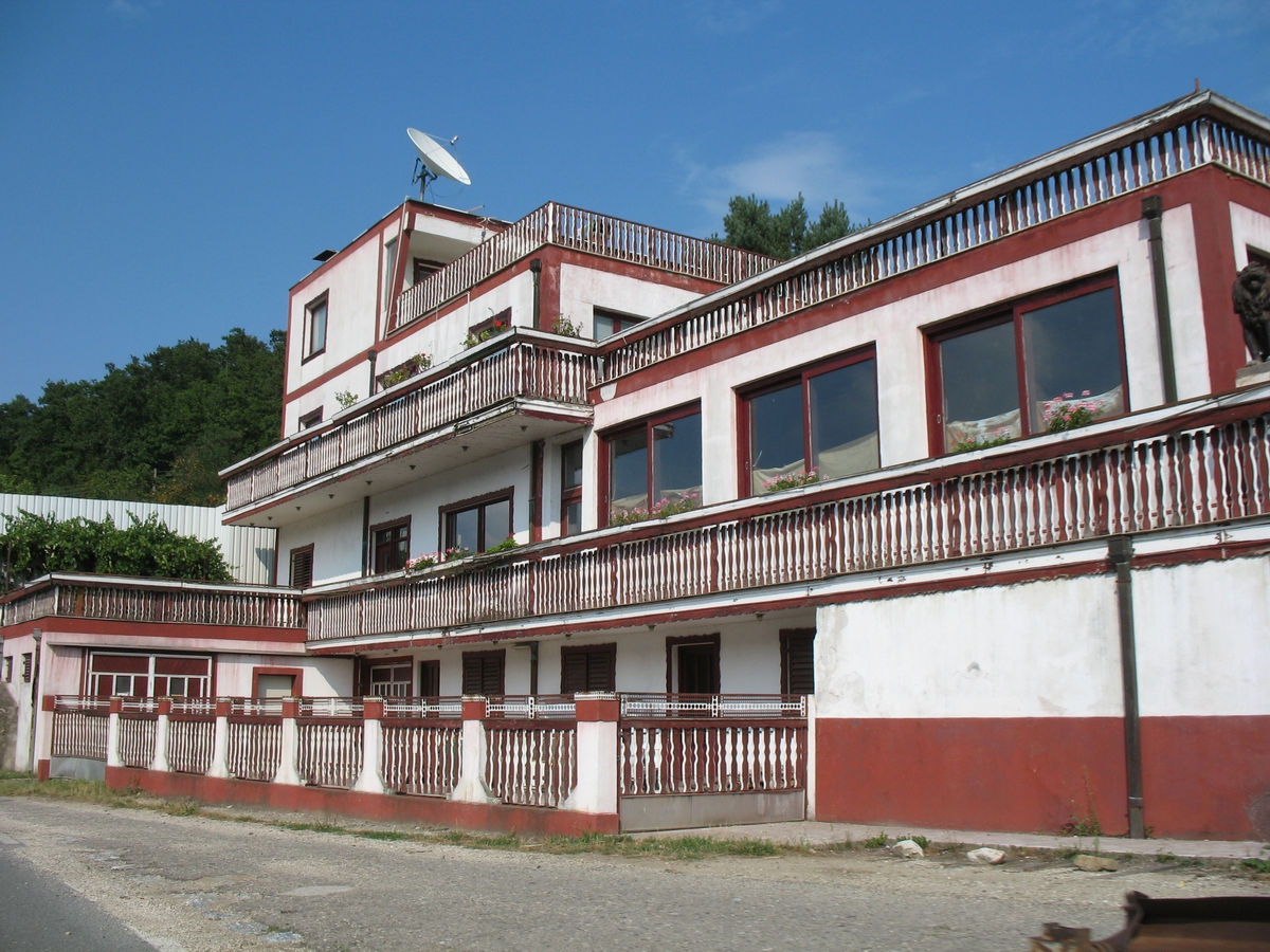 Golubinje on Danube, near Donji Milanovac in Majdanpek municipality, Serbia.